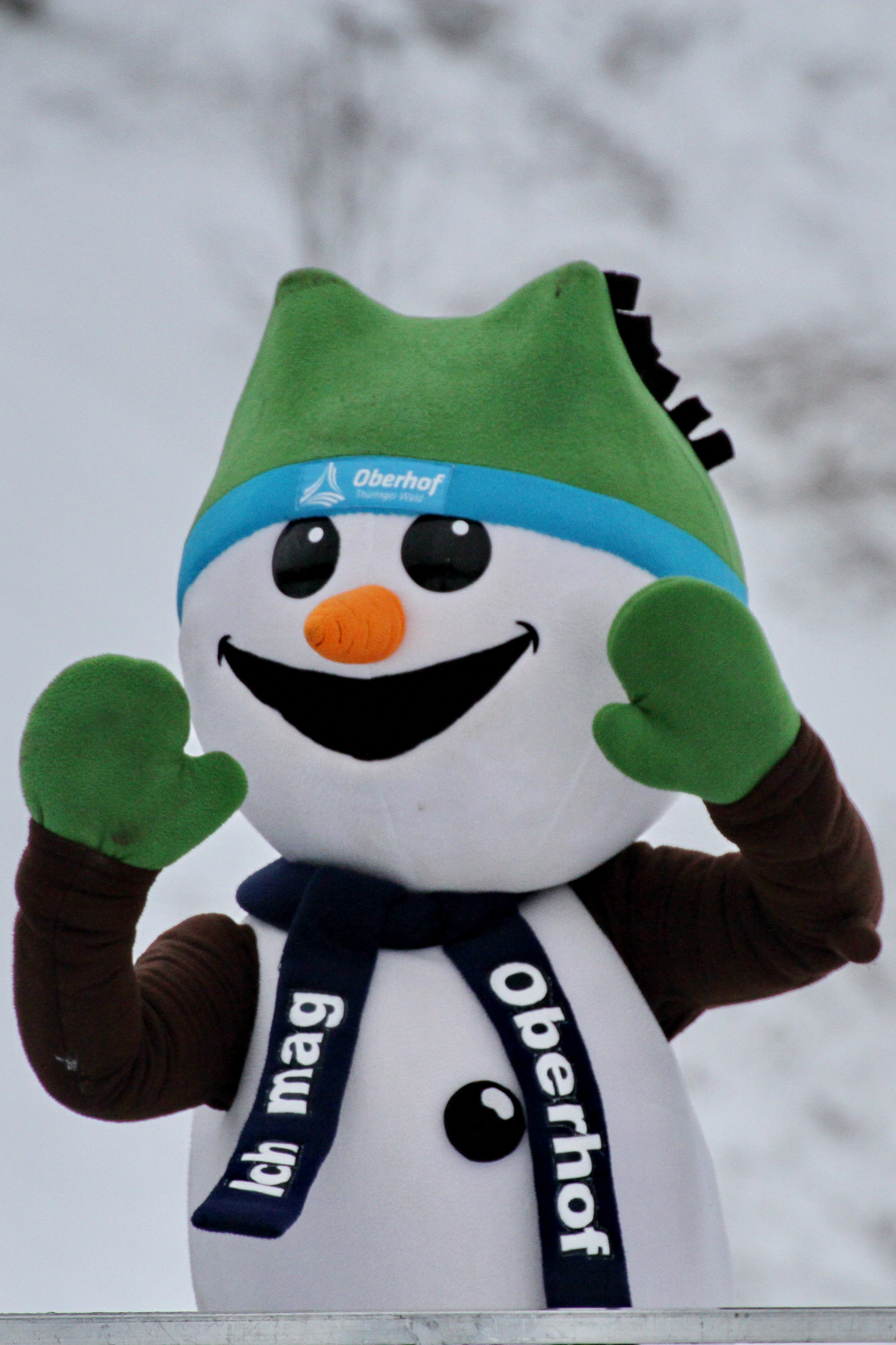 2018 Oberhof Biathlon World Cup - Sprint Women